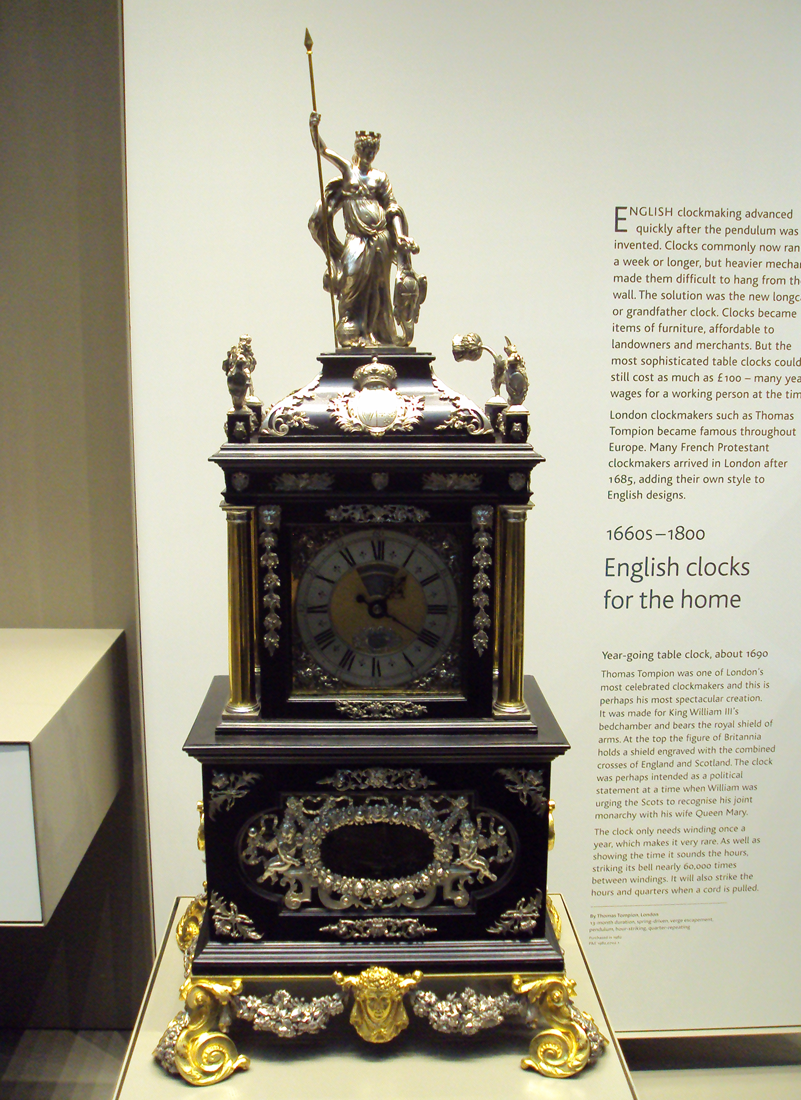 Antique clock inside the British Museum, London.